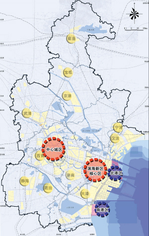 the document from Government of Tianjin City，P.R.China